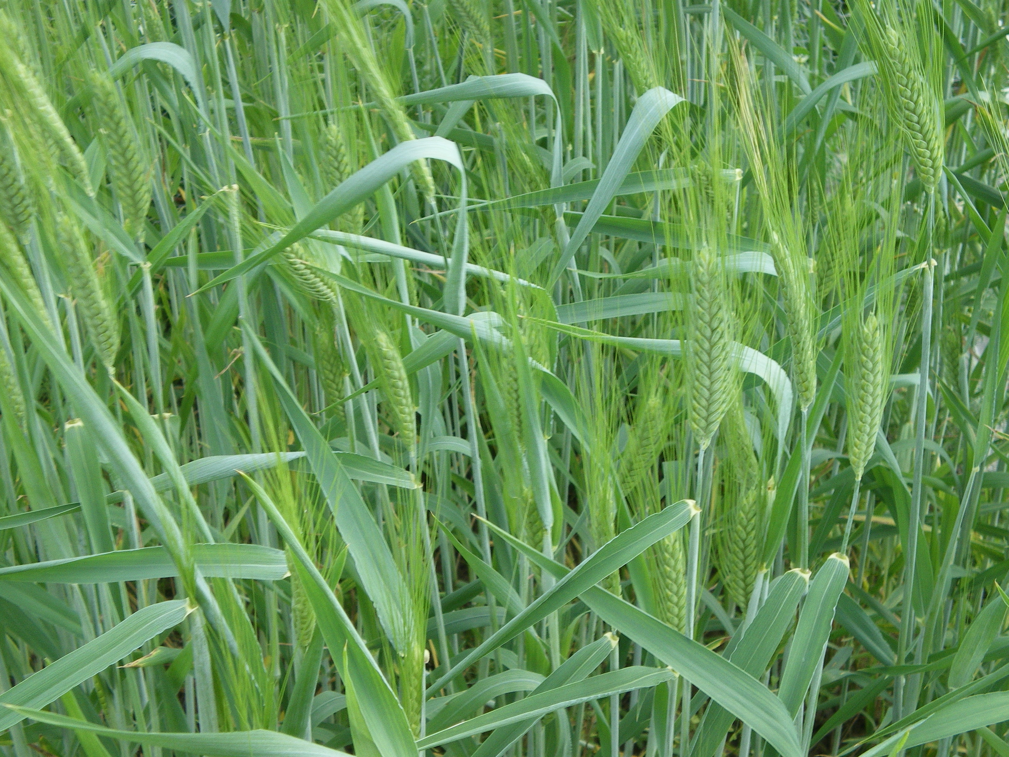 Tritum dicoccum (Emmer)